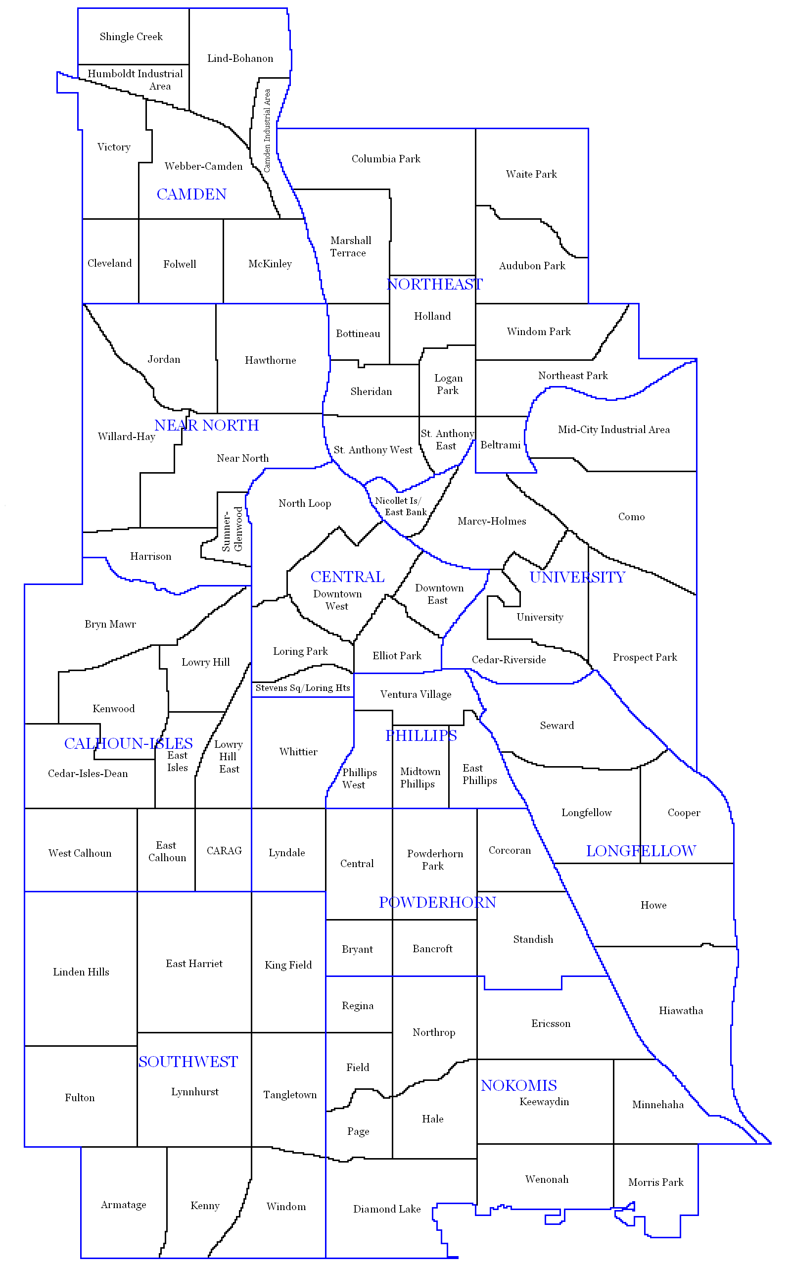 Map of Minneapolis detailing neighborhoods and communities